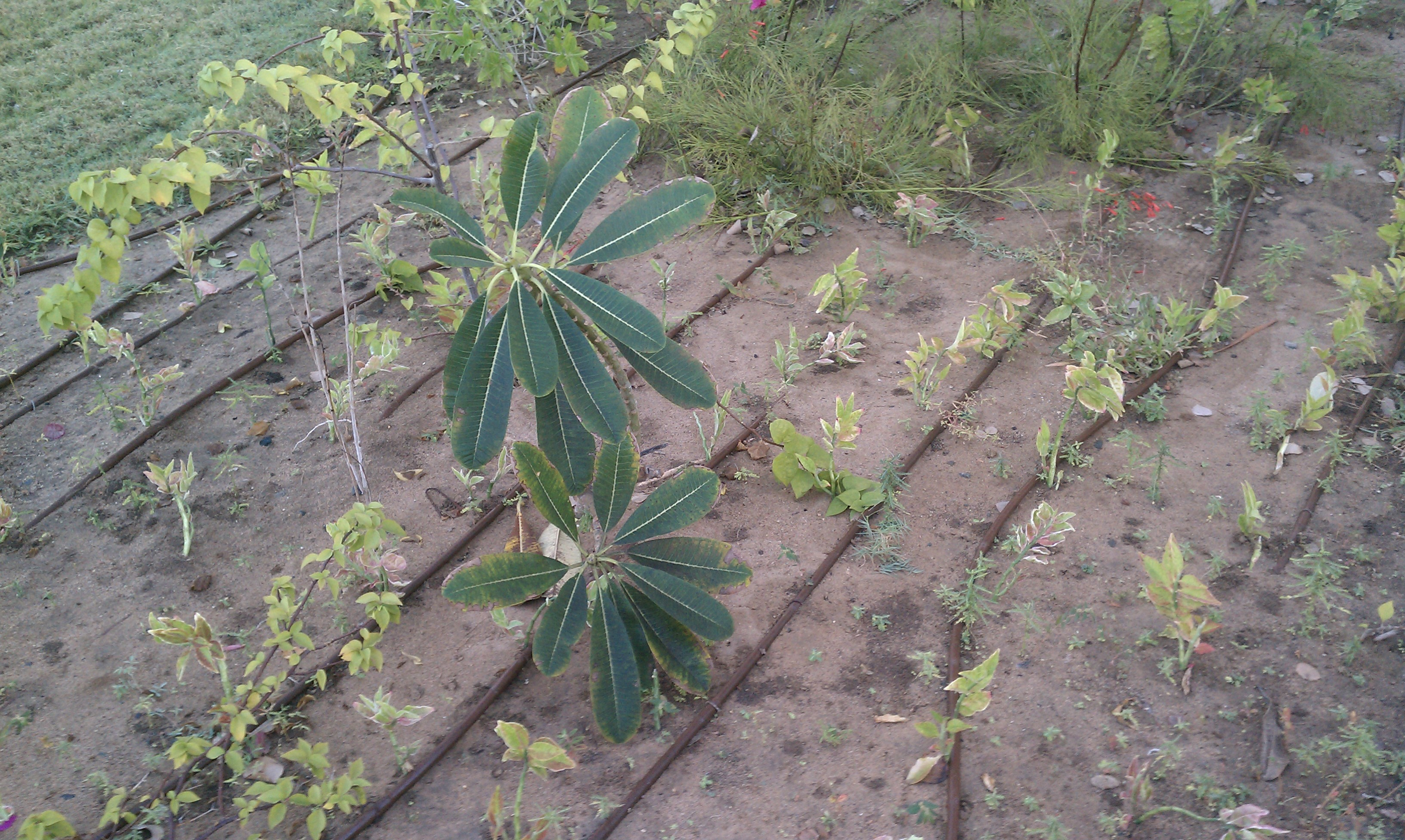 An irrigation technique for a garden at KAUST, Saudi Arabia. Water runs through each pipe, and is dispersed at holes placed next to each plant.